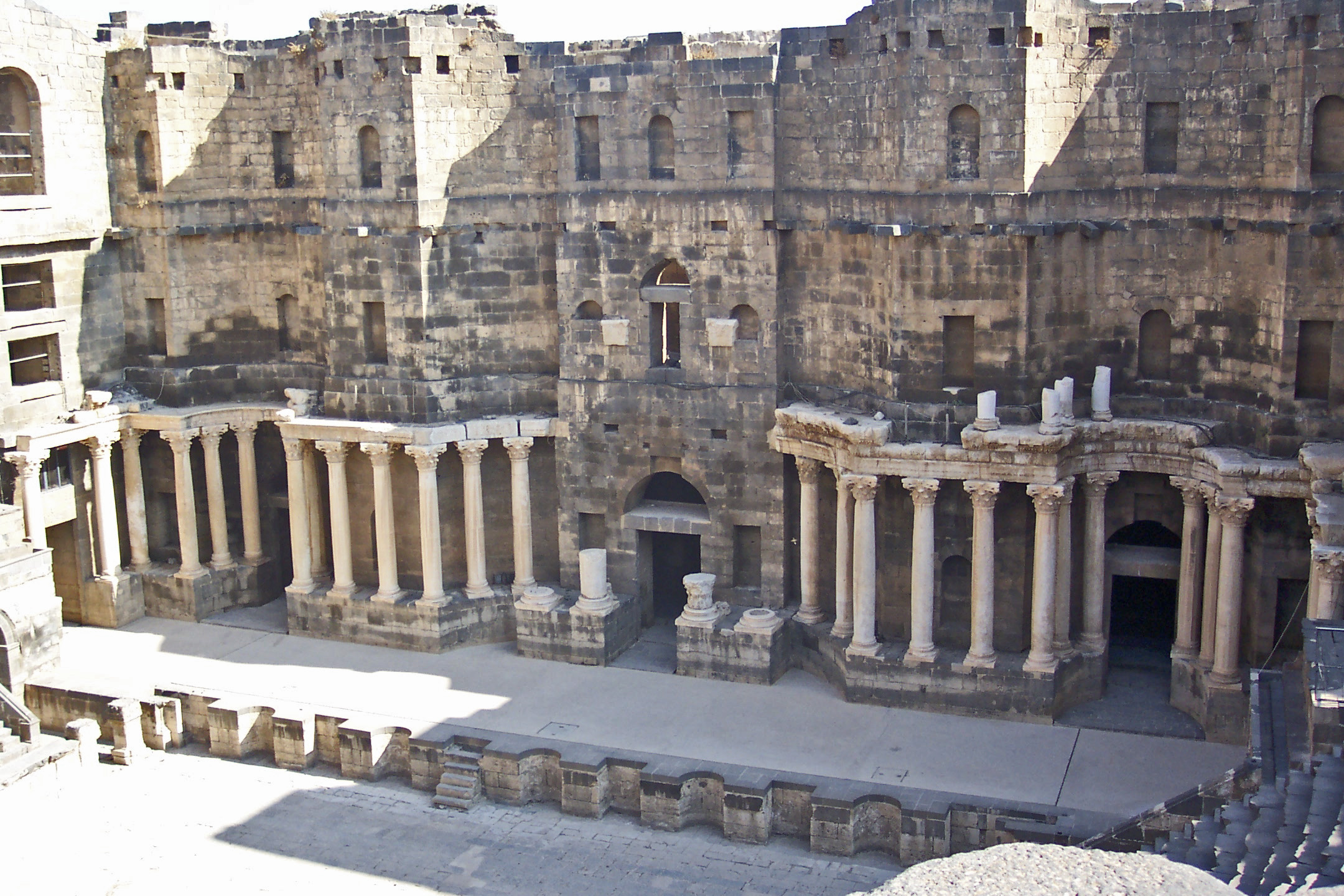 Scenae frons of the Roman Theater in Bosra, Syria